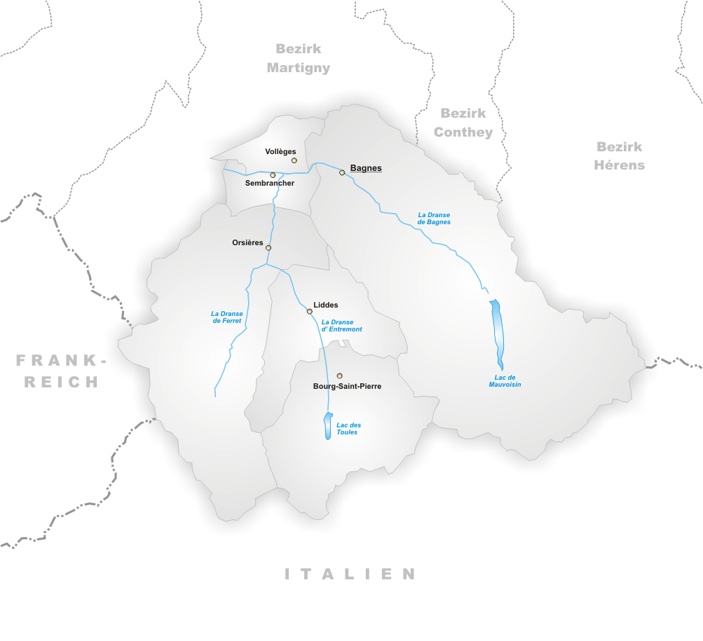 Municipalities of District Entremont